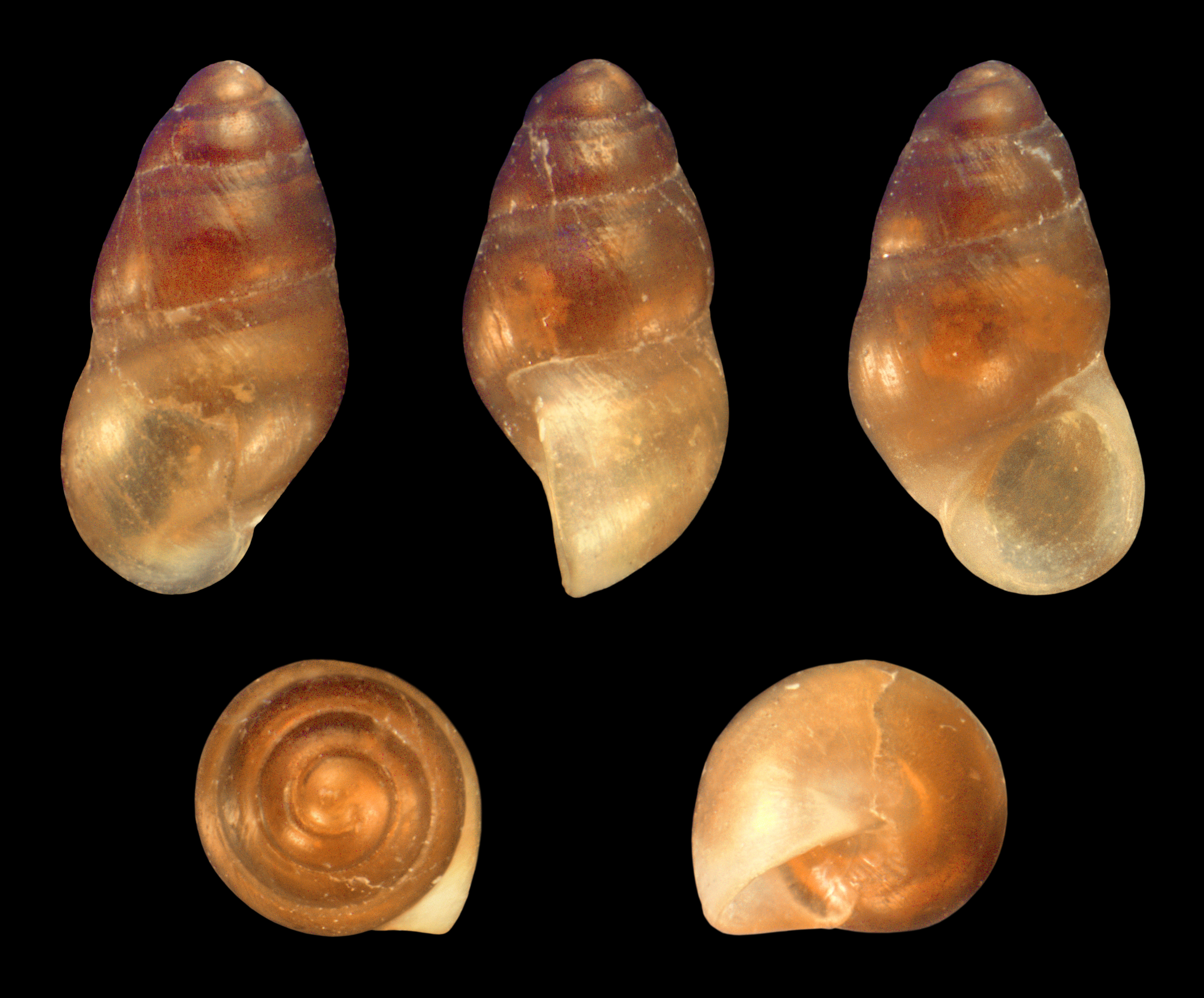 Length 0.12 cm; Originating from the Playa de San Telmo, Puerto de la Cruz, Tenerife, Canary Islands, Spain 28°25′3.09″N 16°32′47.94″W / 28.417525°N 16.54665°W; Shell of own collection, therefore not geocoded. Dorsal, lateral (right side), ventral, back, and front view.